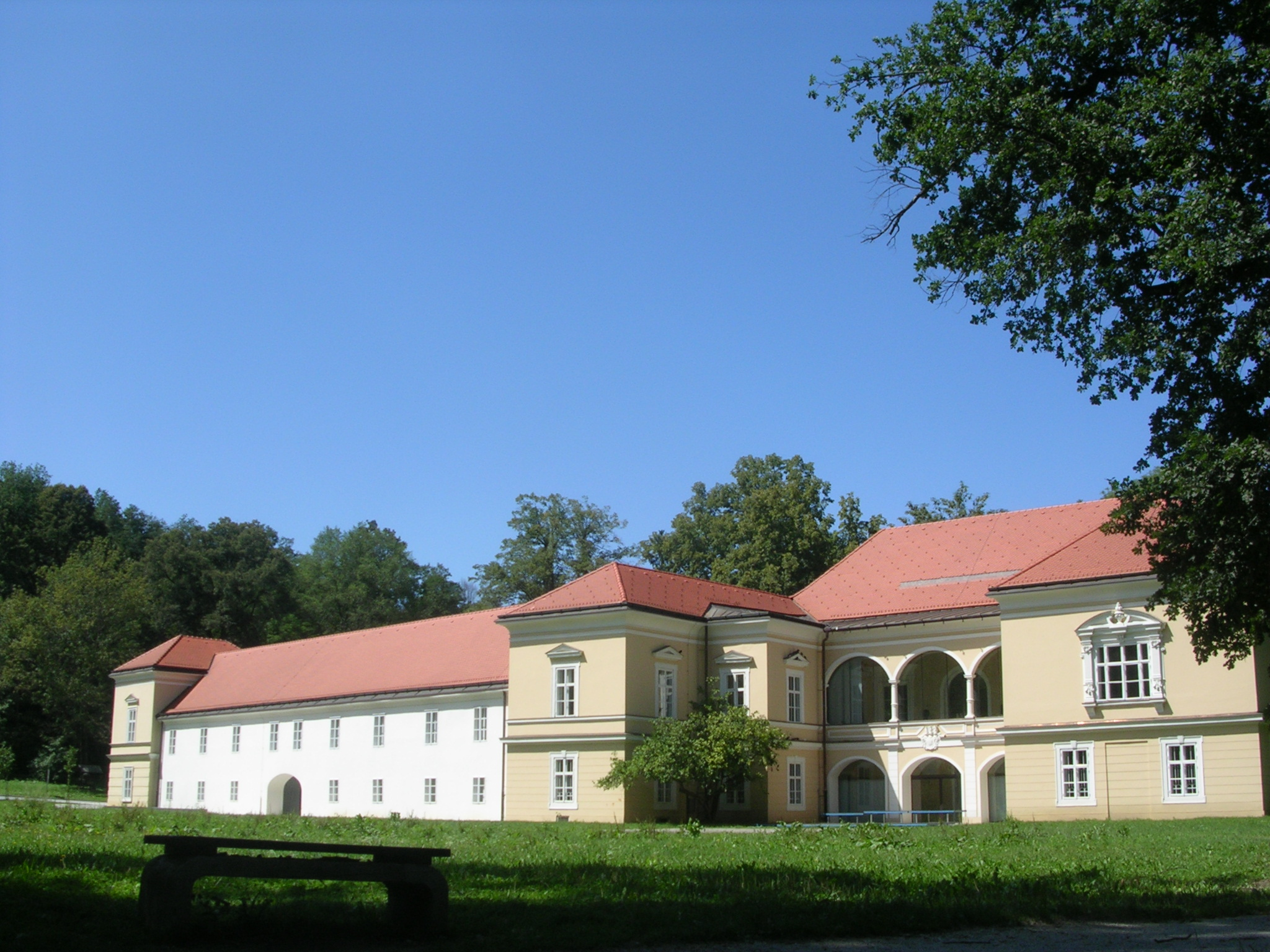 Mansion, Ravne - Castle Parks